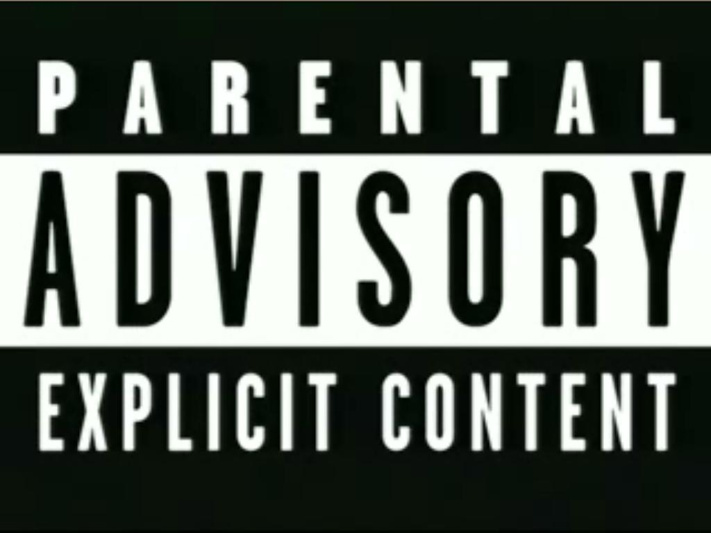 The Parental Advisory logo